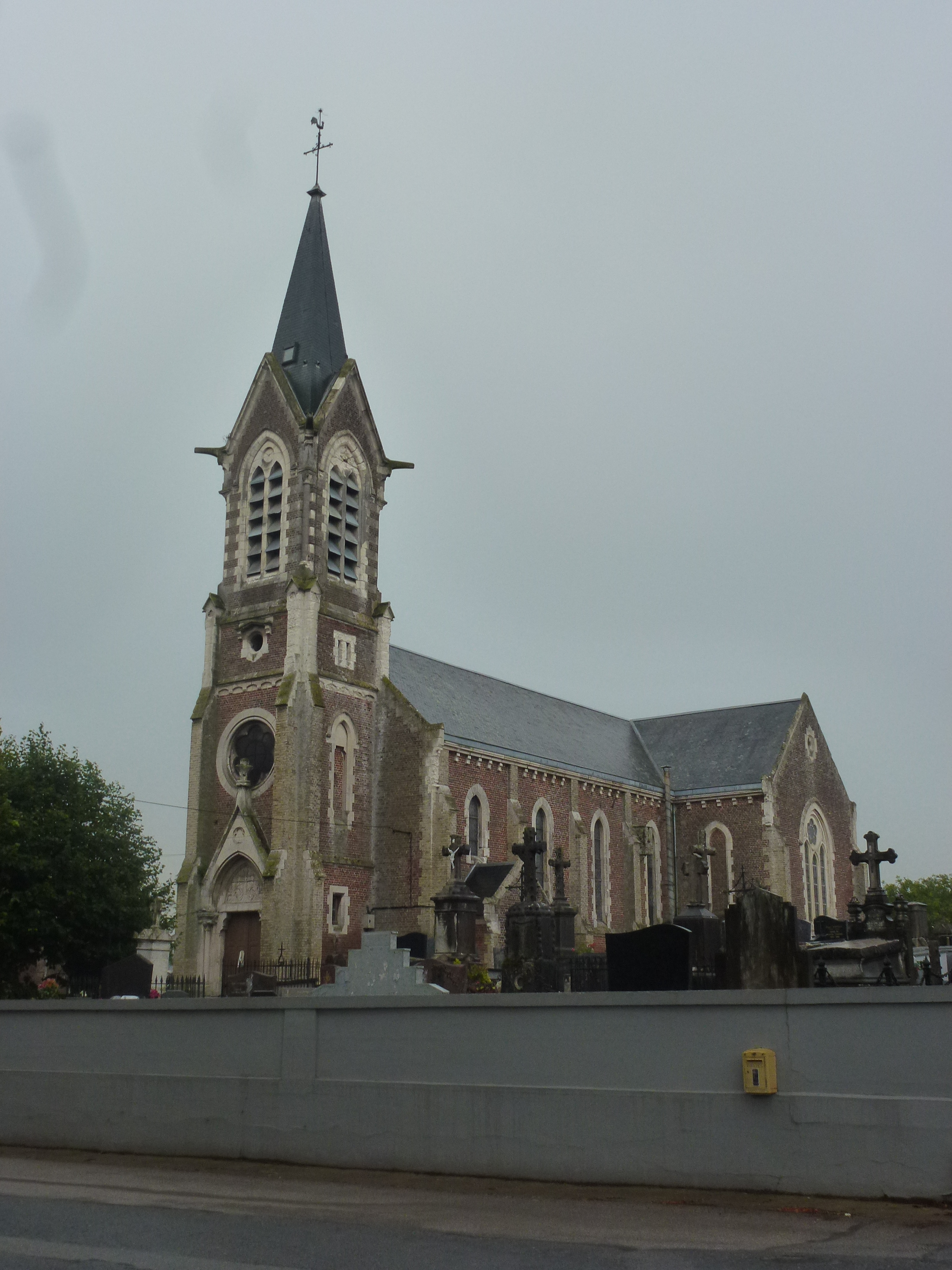 Brêmes (Pas-de-Calais) église